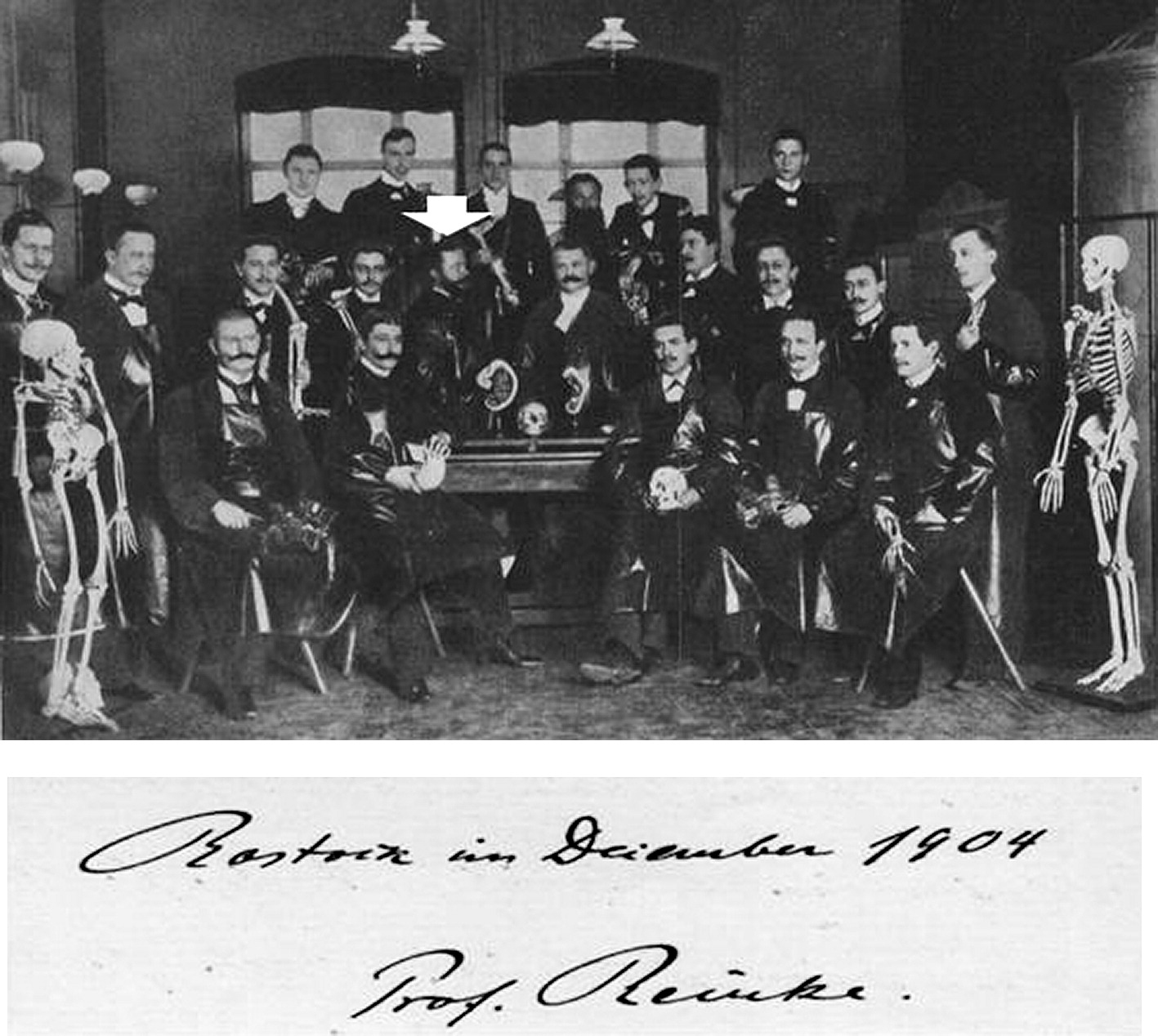 Reinke in 1904, the year of his dismissal from the Institute of Anatomy (from the Institute of Anatomy, University of Rostock). White arrow denotes Dr Reinke.